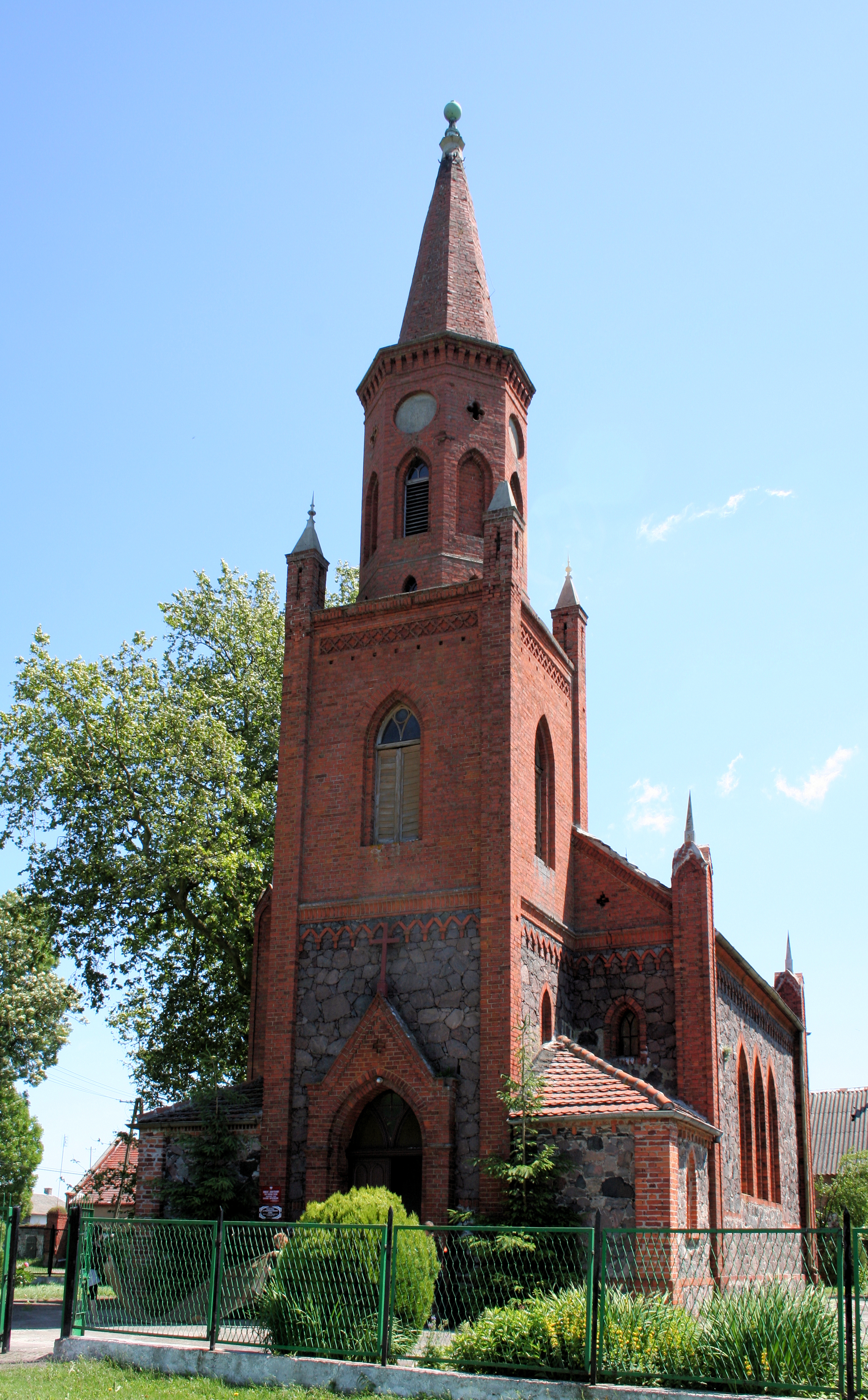 Church of the Most Holy Saviour in Sitno, West Pomeranian Voivodeship